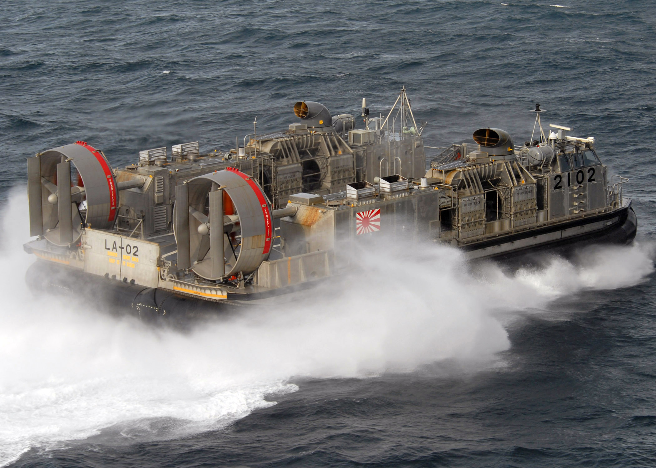 A Japanese landing craft air cushions prepares to enter the well deck of dock landing ship USS Tortuga (LSD 46) during ANNUAL-EX, a well deck exercise with the Japan Maritime Self-Defense Force in the vicinity of Sasebo, Japan. Tortuga serves under Commander, Expeditionary Strike Group 7/Task Force 76, the Navy's only permanently forward-deployed amphibious force. U.S. Navy photo by Mass Communication Specialist Seaman Brandon Myrick